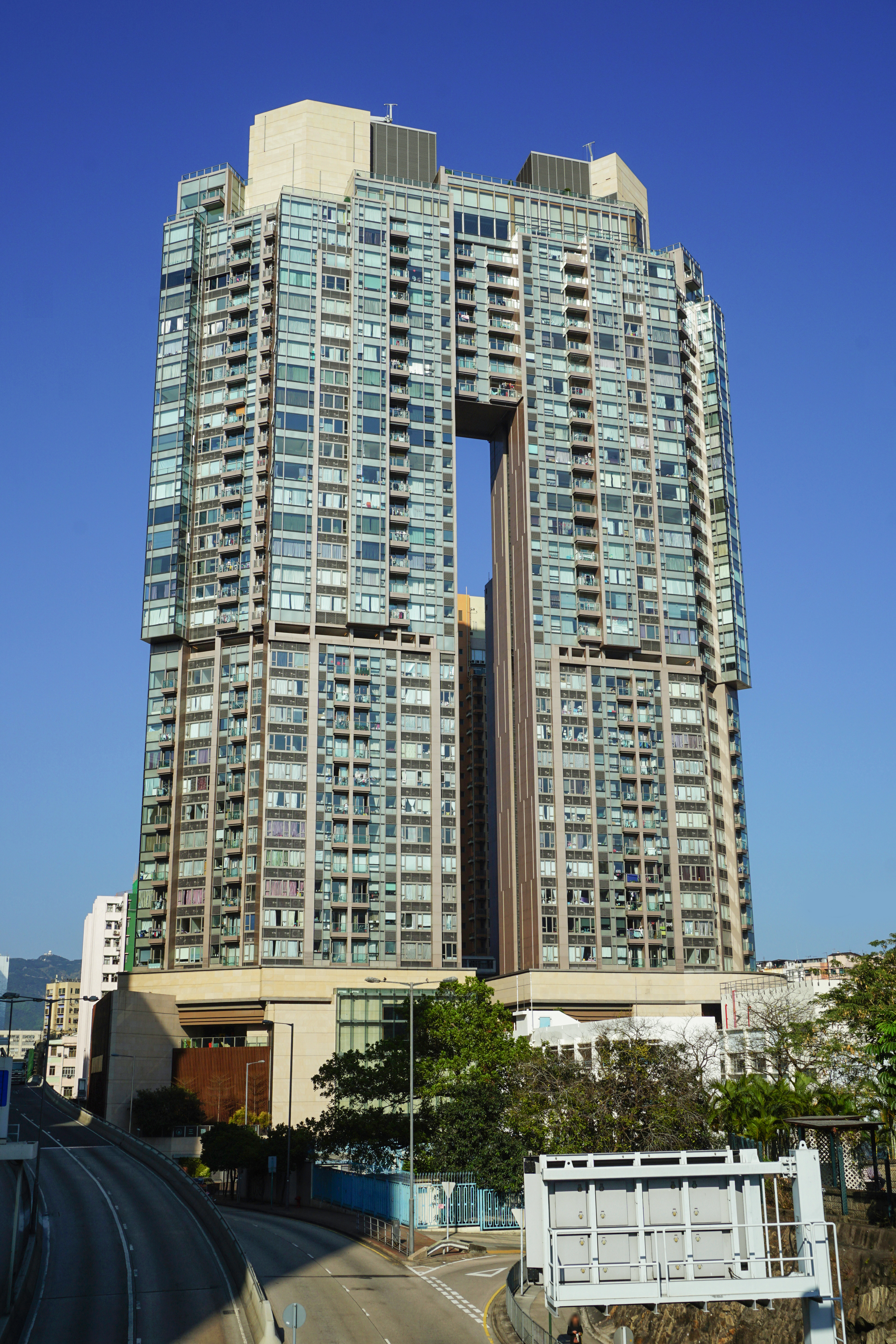 Chatham Gate in Hung Hom, Hong Kong.